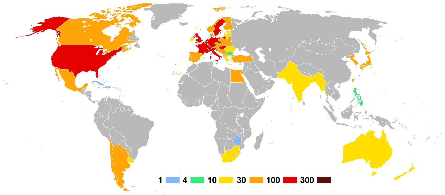 Countries that competed in the 1928 Summer Olympics by number of athletes. Derived from Image:1928_Summer_olympics_team_numbers.png and Image:BlankMap-World-1935.png.